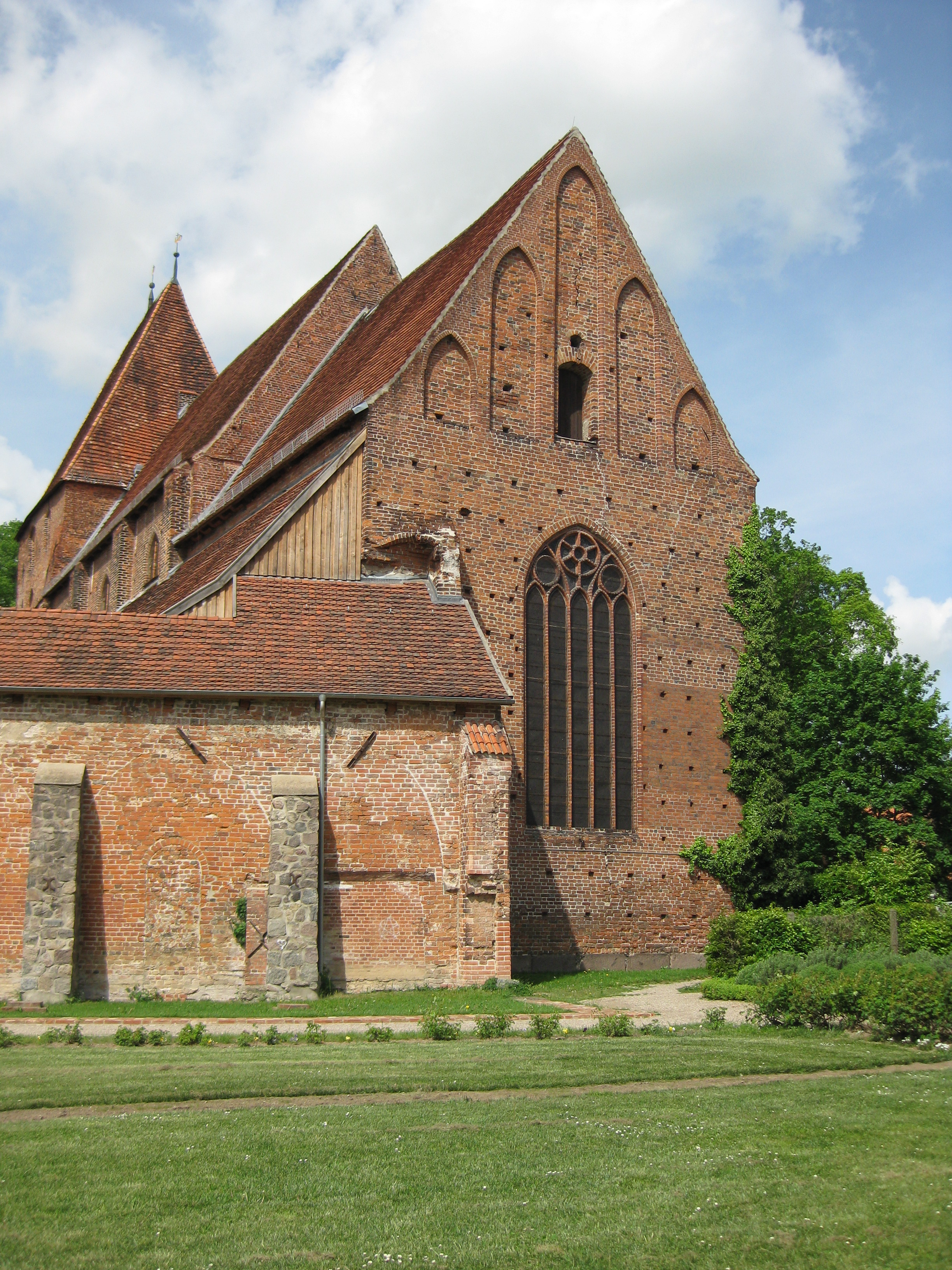 Rehna monastery